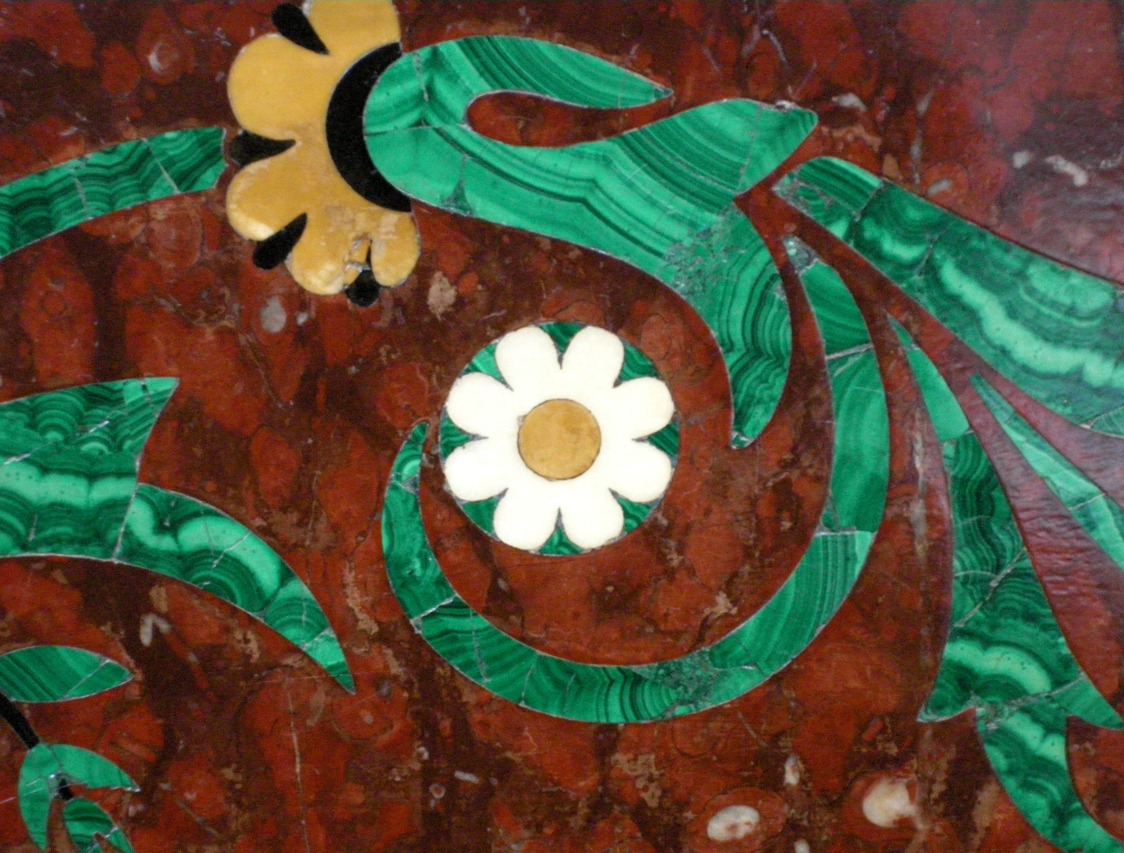 Bankfield Museum, Halifax, West Yorkshire, England. 53.43'.57".N; 1.51'.48".W.